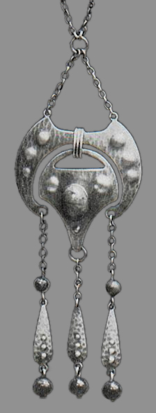 Design for a necklace, silver jewelery from the goldsmith school Pforzheim